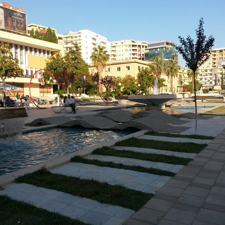 Sheshi ne Lushnje